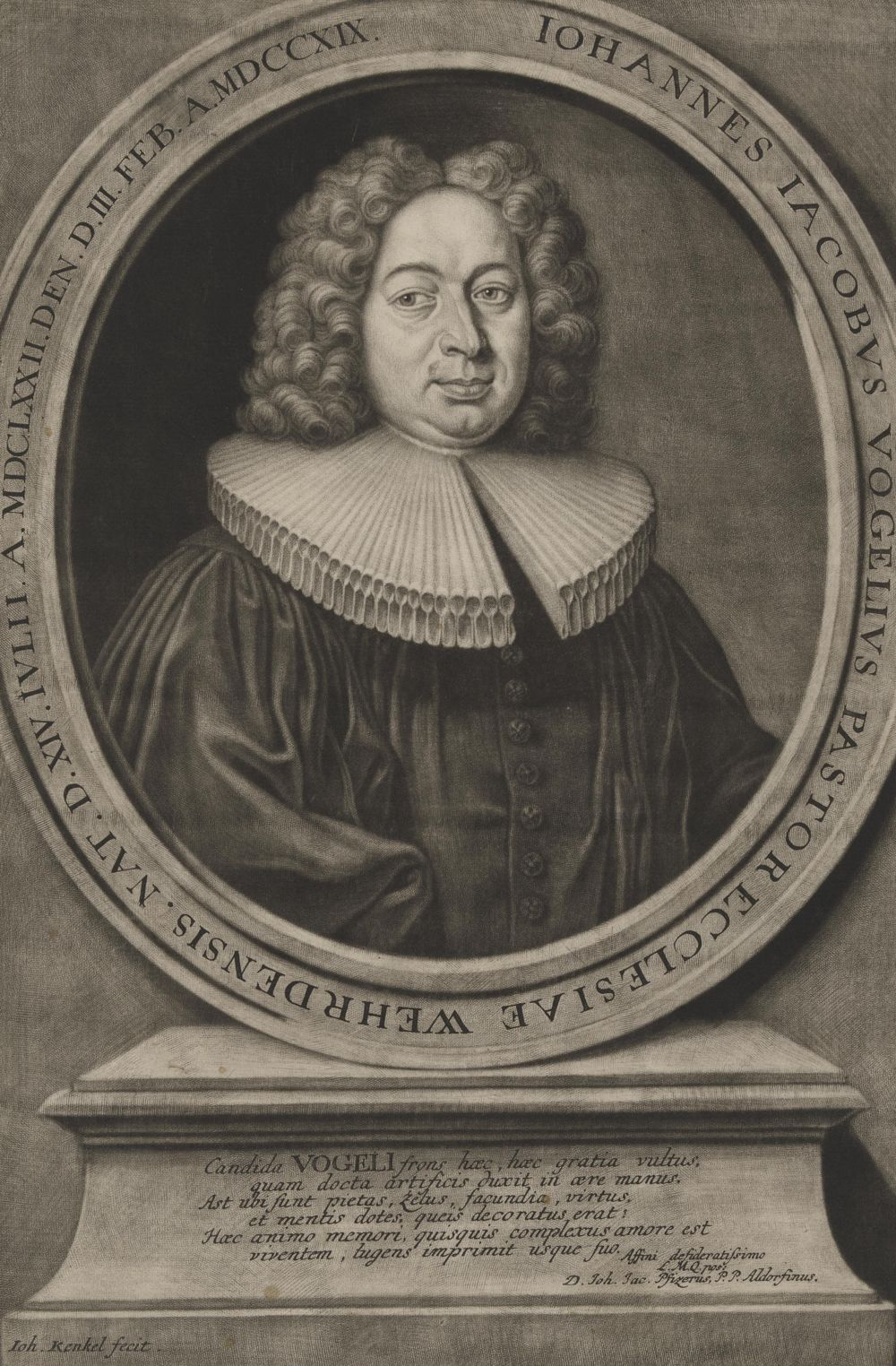 Johann Jacob Vogel (1660-1729)